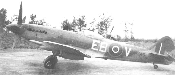 Late Supermarine Spitfire F.MK XIV, 41 Squadron May 1945